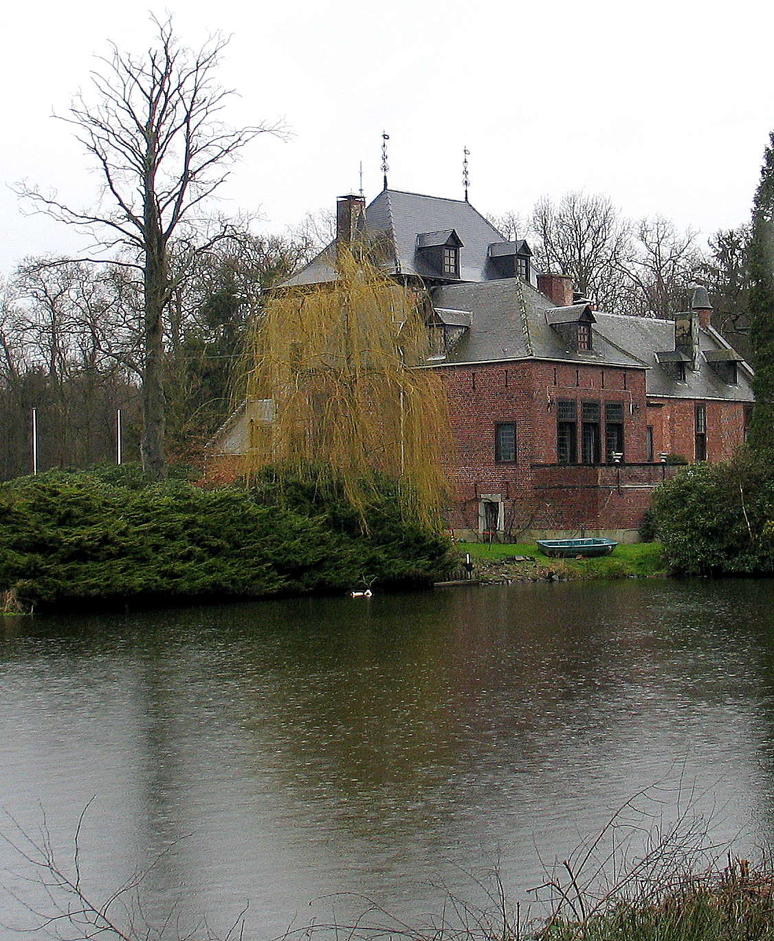 castle de Schans in Opoeteren (Maaseik) Belgium